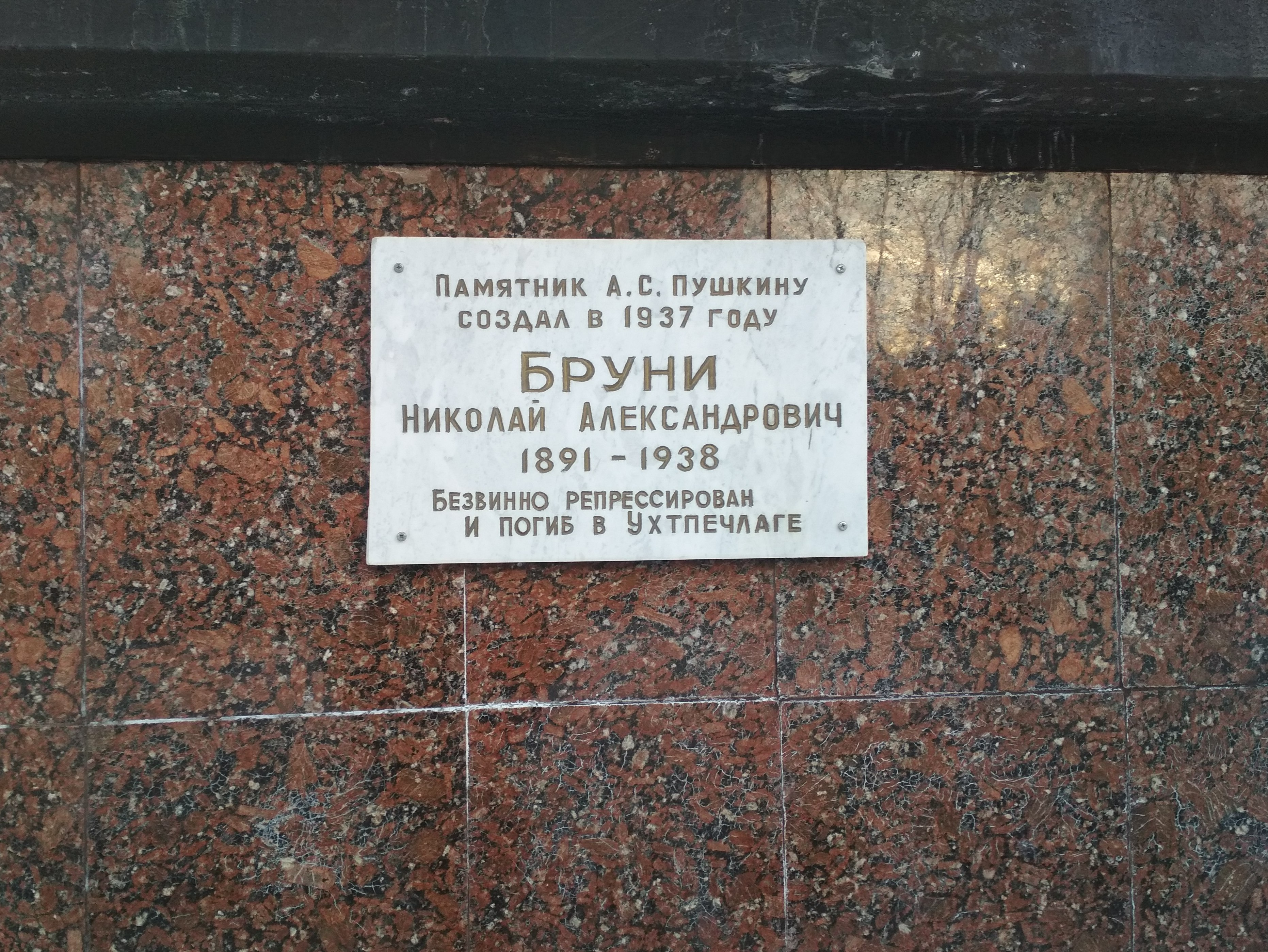 A commemorative plaque on the monument to A. S. Pushkin by Bruni Nikolai Alexandrovich was created in 1937 in memory of the 100th anniversary of the poet's death. The city of Ukhta, the Republic of Komi.